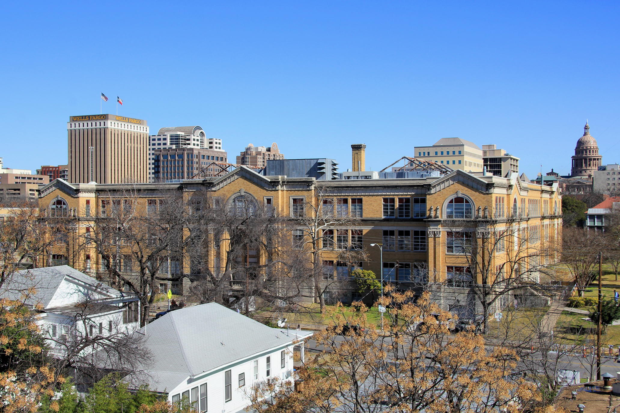 The Rio Grande Campus of Austin Community College in Austin, Texas, United States